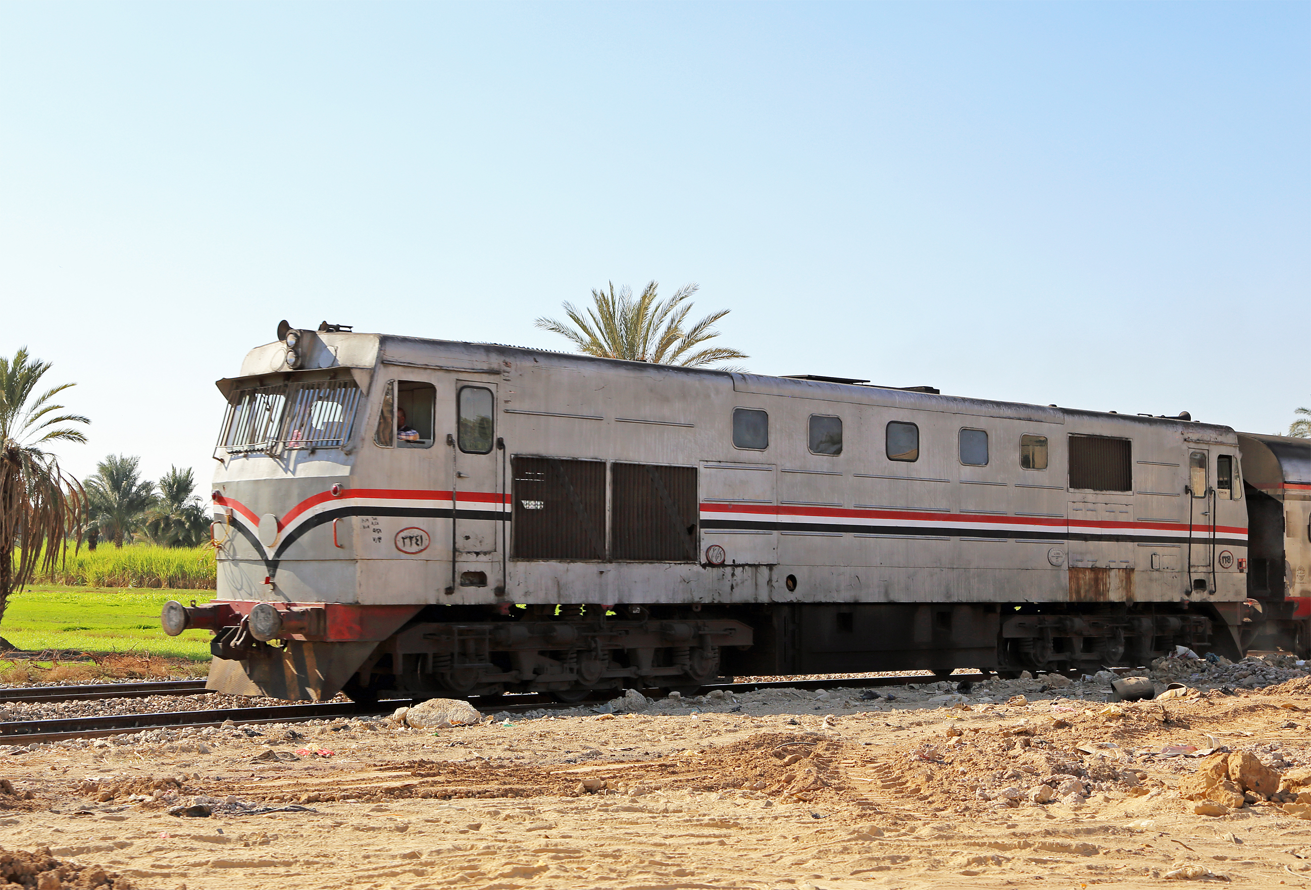 Henschel AA22T diesel locomotive of Egyptian National Railways Аҧсшәа: Locomotive diesel Henschel AA22T de la compagnie nationale des chemins de fer d'Egypte